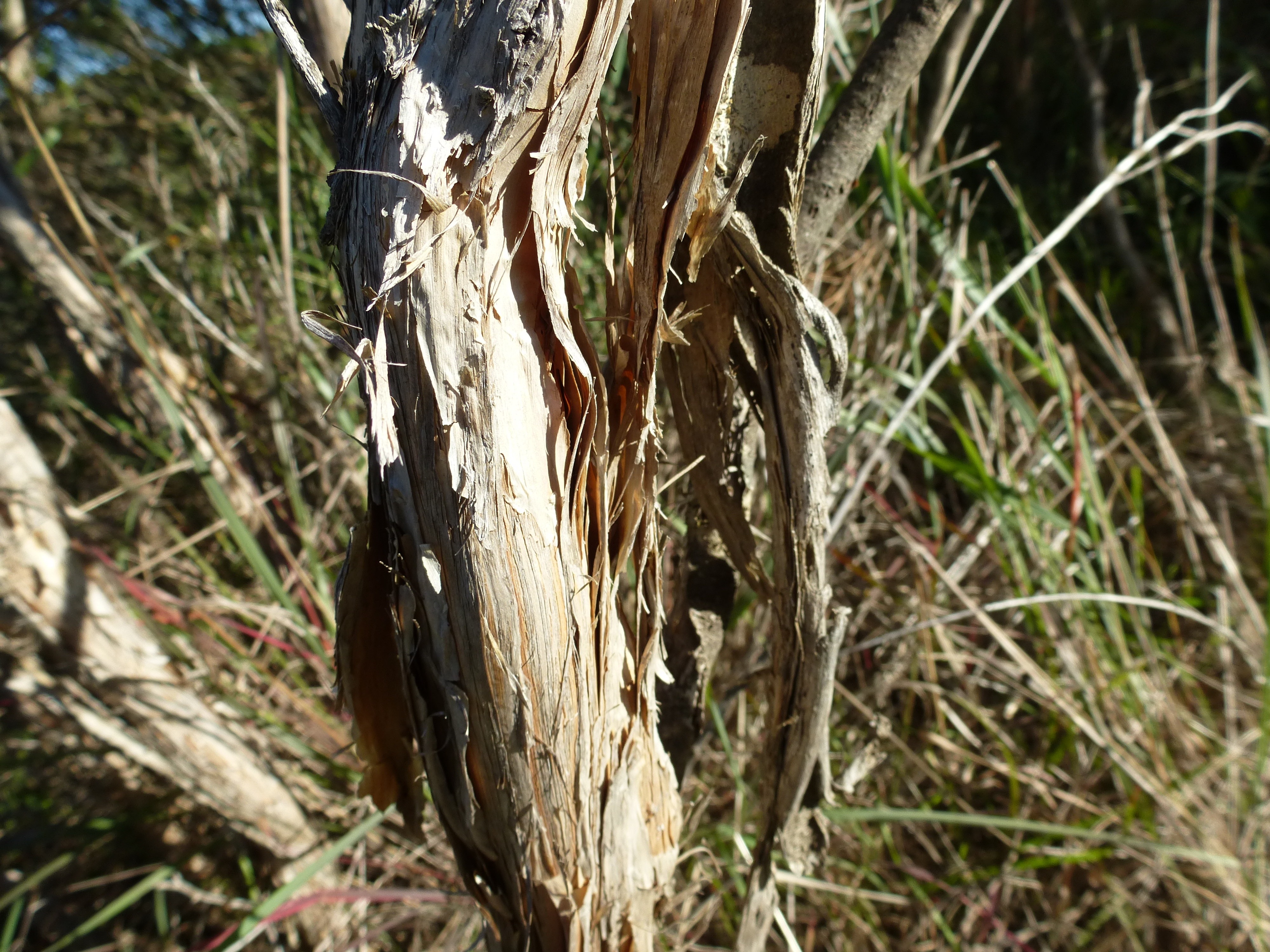 Melaleuca concreta growing along White Peak Road near Geraldton